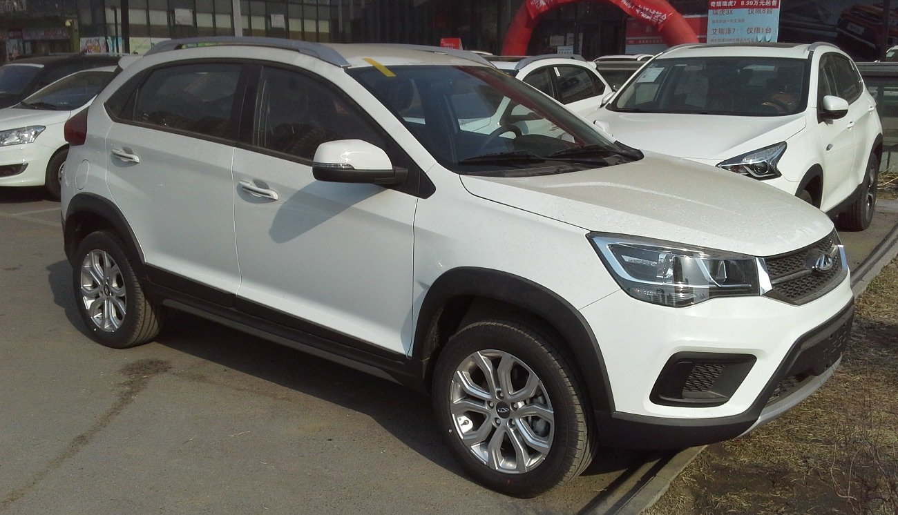 Chery Tiggo 3X photographed in Shenyang, Liaoning province, China.